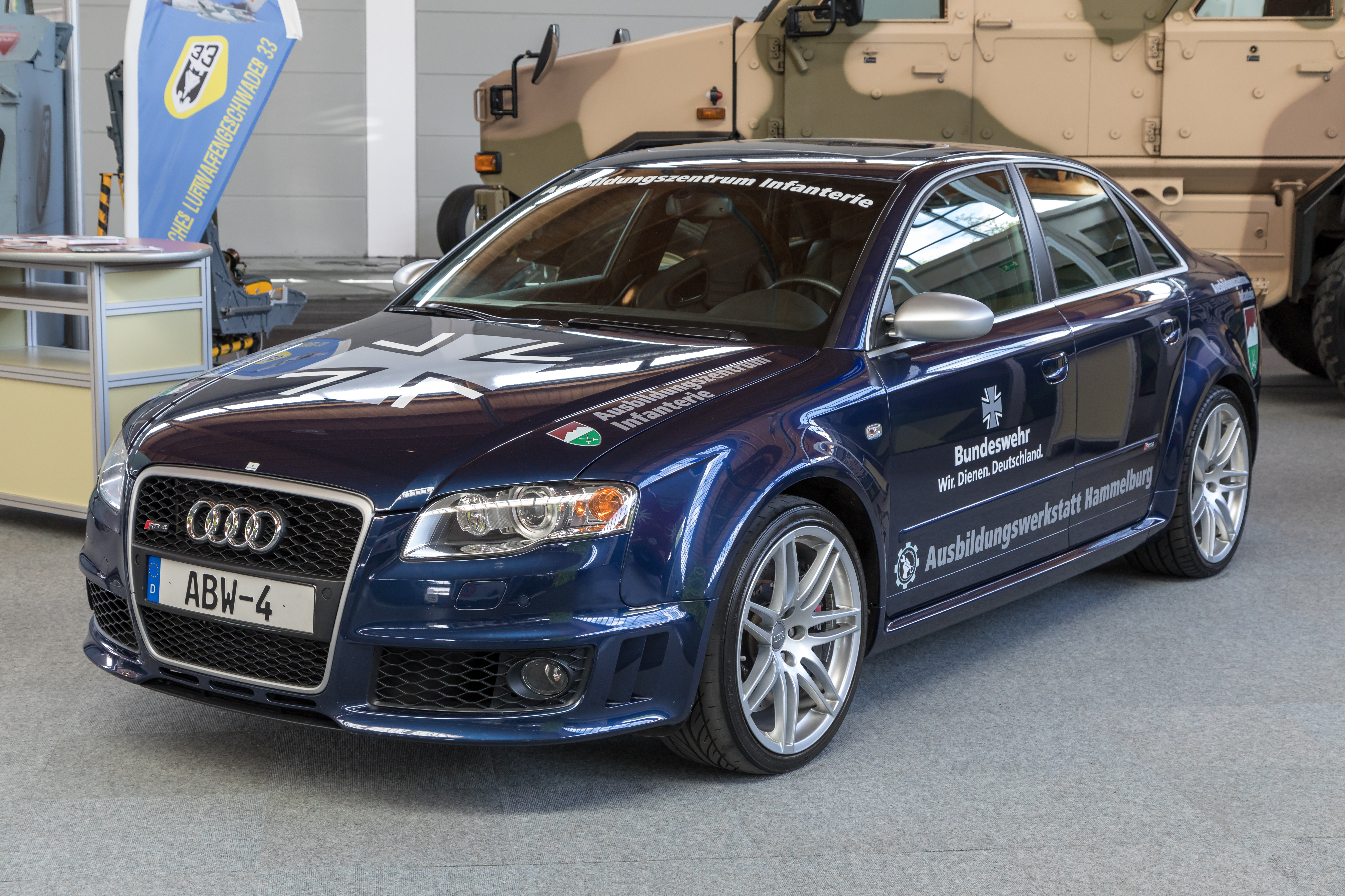 Tuning World Bodensee 2018